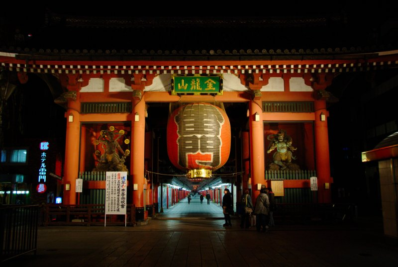 Kaminarimon gate of Sensō-ji Temple